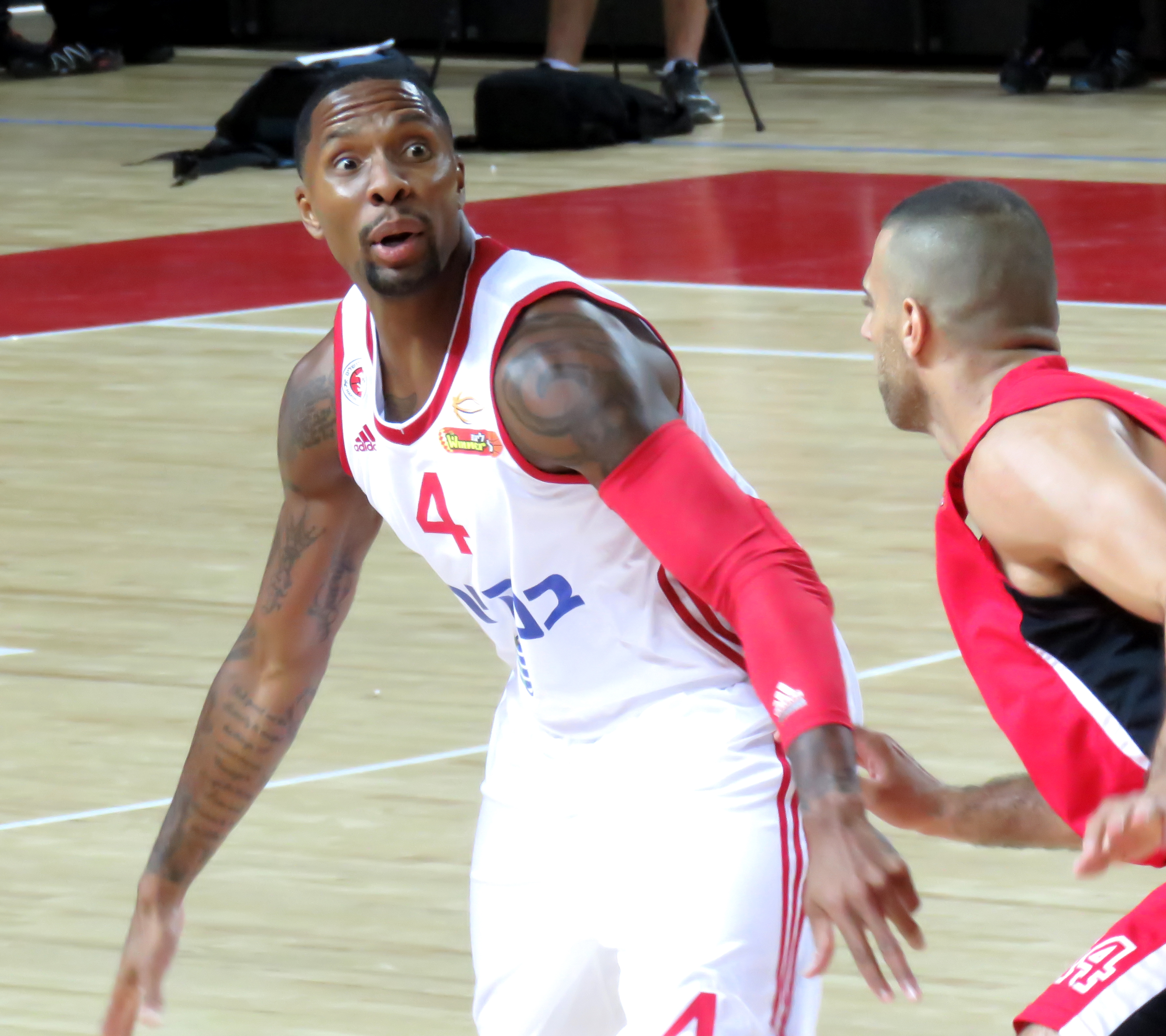 Hapoel Tel Aviv vs. Hapoel Jerusalem, 25 September, 2015